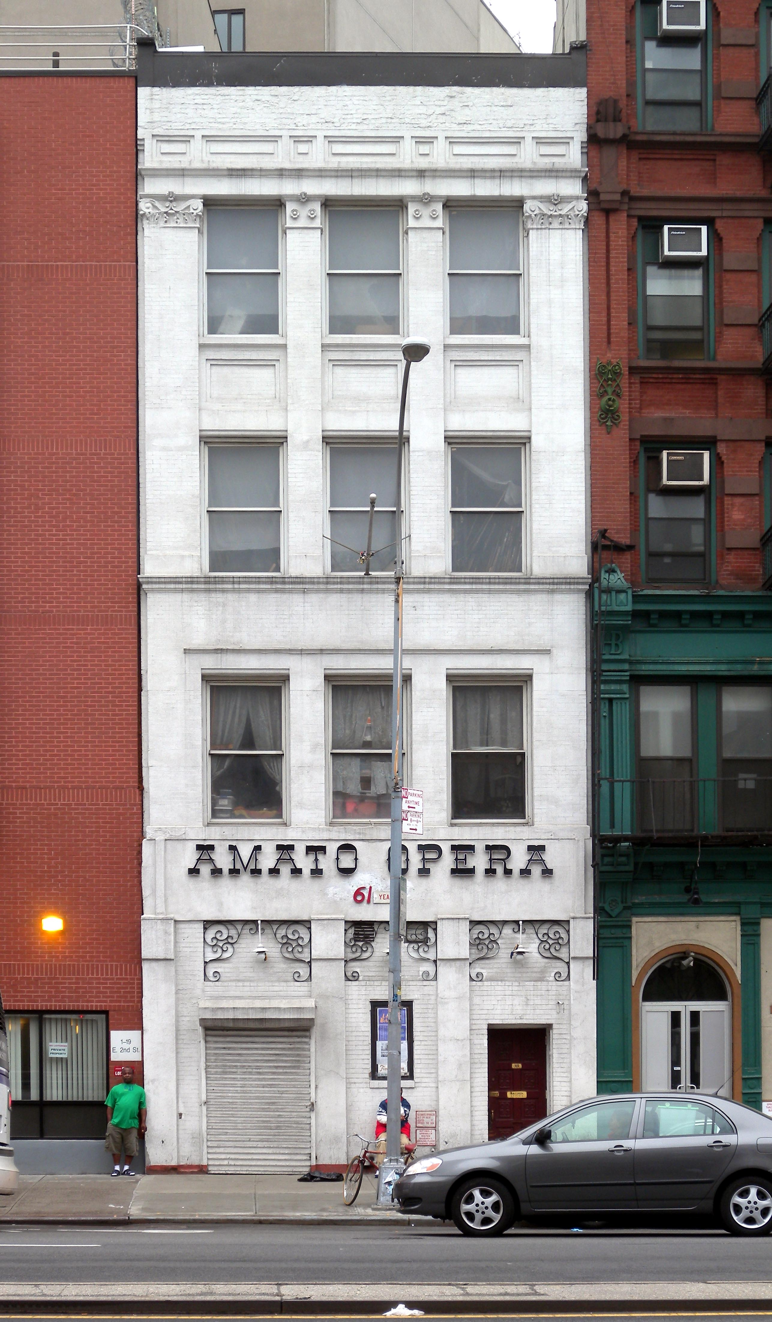 Looking east at Amato Opera at 319 Bowery on a cloudy late afternoon. ZIP 10009.